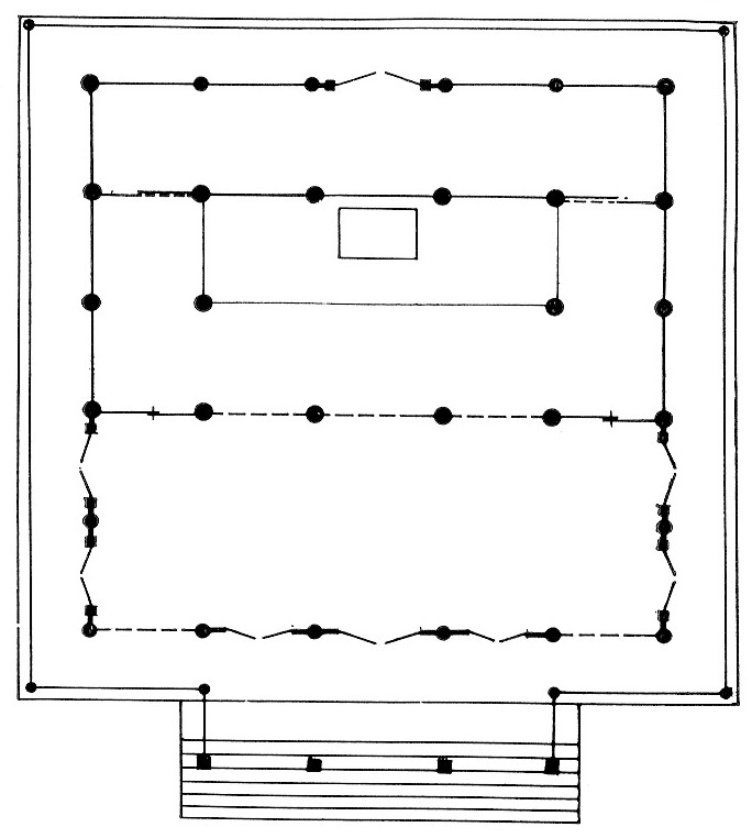 Choju-ji (Shiga Pref) layout